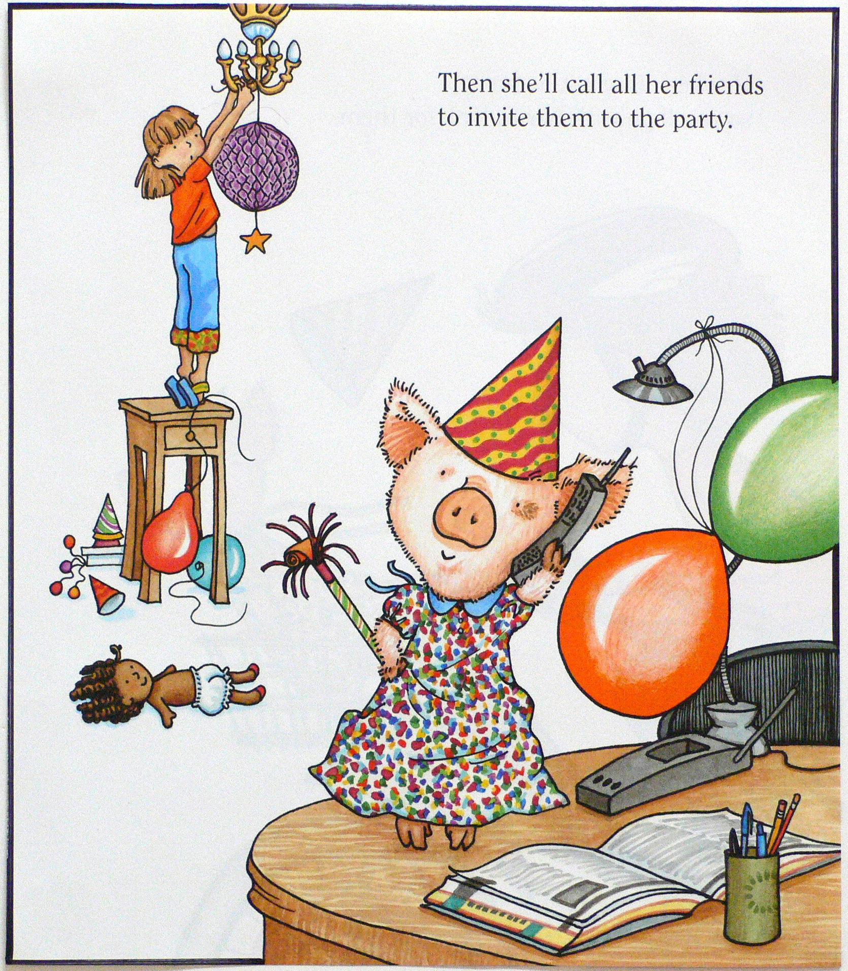 If You Give a Pig a Party (3) illustrated by Felicia Bond (illustrator, children's book illustrator), and written by Laura Numeroff